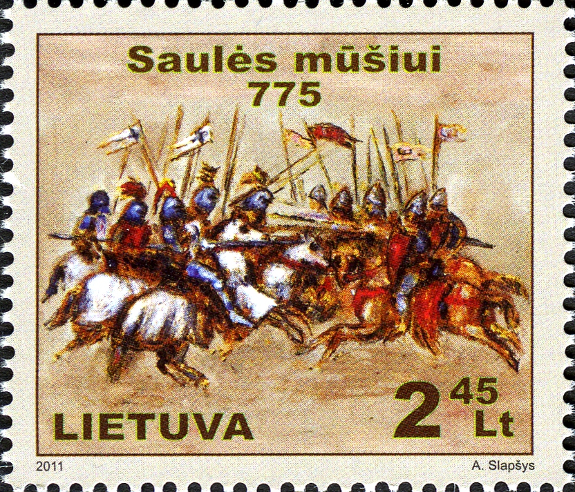 Stamps of Lithuania, 2011